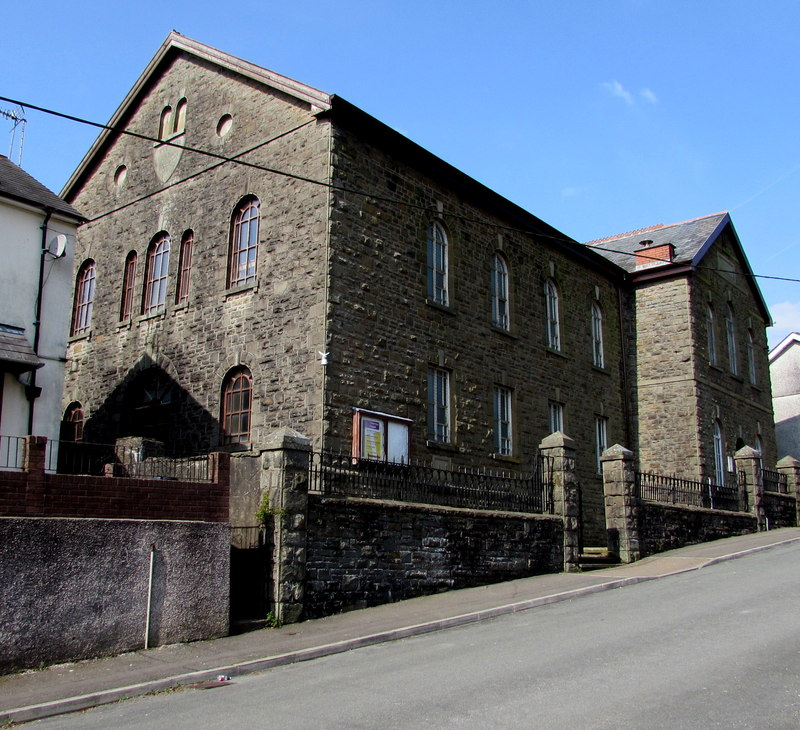 Tabernacle Independent Chapel, Ynysybwl. Viewed across Other Street. The nameboard on the wall in April 2015 shows the Welsh language spelling Tabernacl. The chapel was built in the 1880s at the north end of the newer part of Ynysybwl. The Sunday School extension on the right side was added in the first decade of the 20th century. This part of the chapel is now used as an Ynysybwl Foodbank distribution point, run in co-operation with all the other chapels and churches in Ynysybwl.